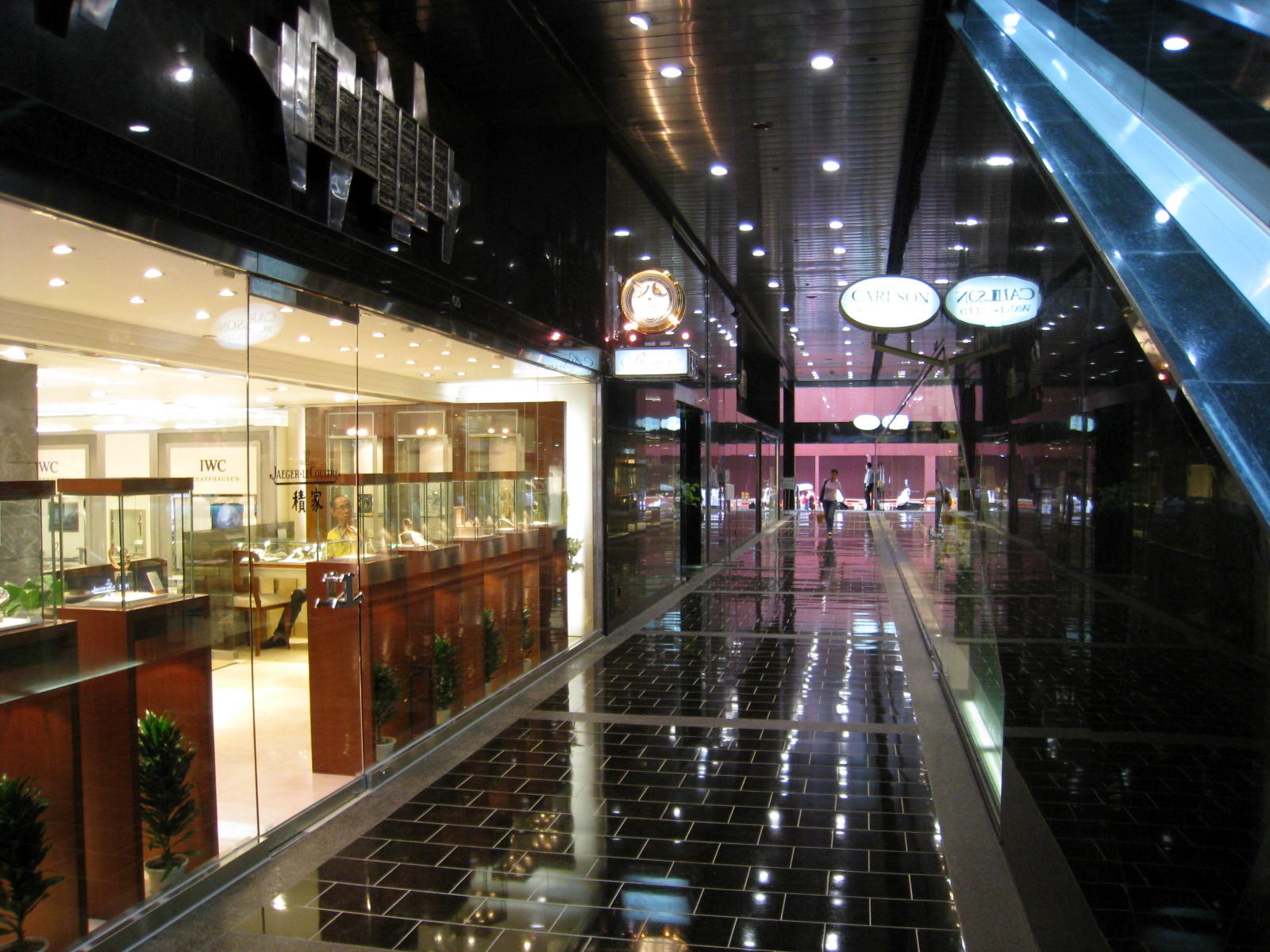 HK Aon China Building Interior 怡安華人行